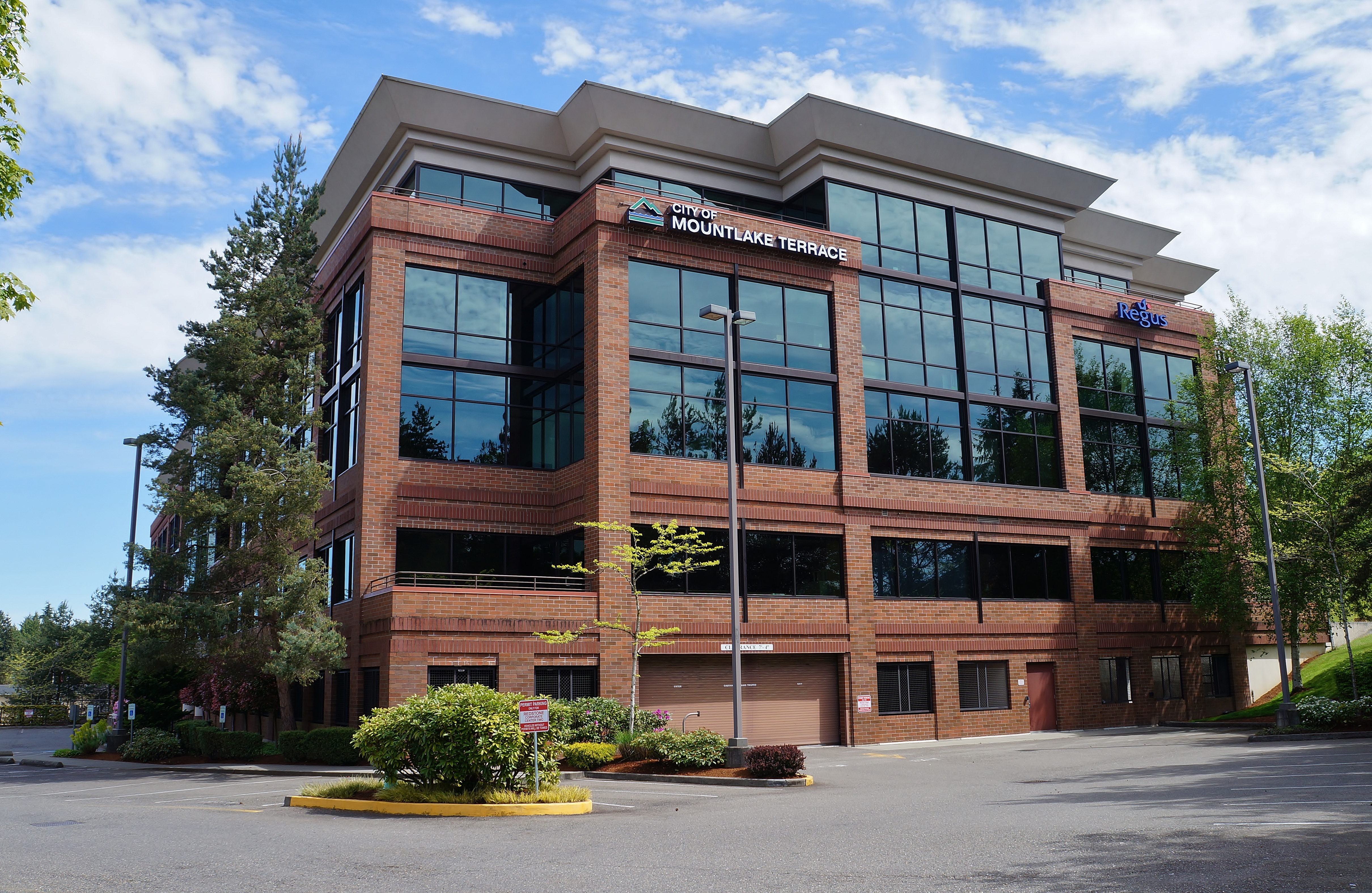 The interim city hall of Mountlake Terrace, Washington at the Redstone Corporate Center. The city government relocated here in 2009 after the original city hall was closed for demolition; it will be replaced by a new building in 2020.